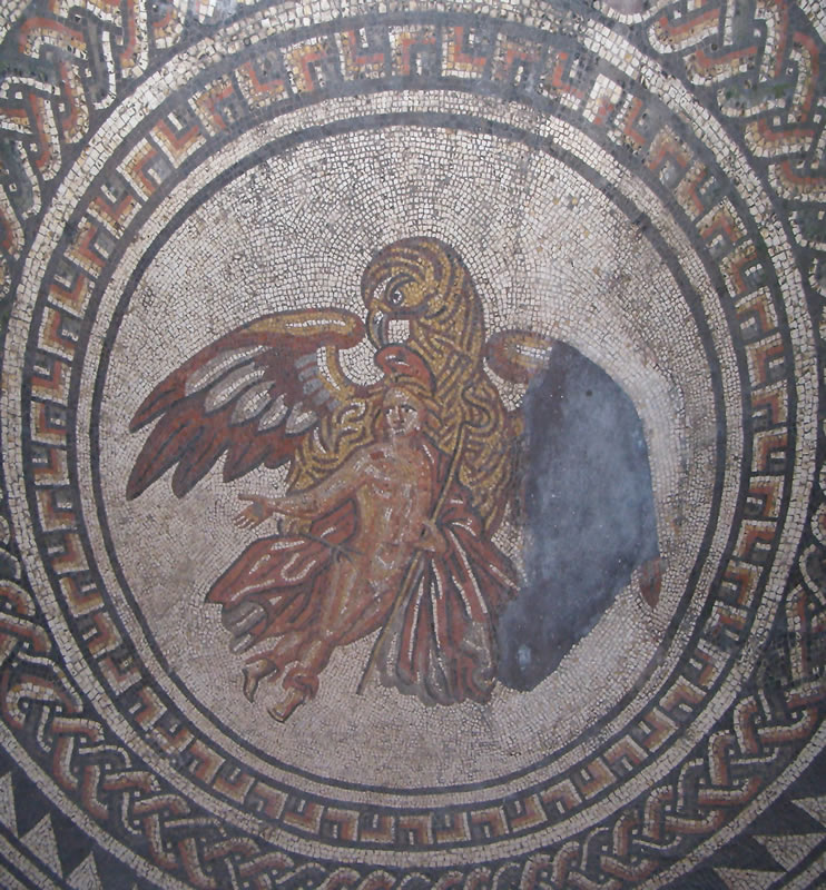 Ganymed on a Mosaic in the Roman villa of Bignor; Britain